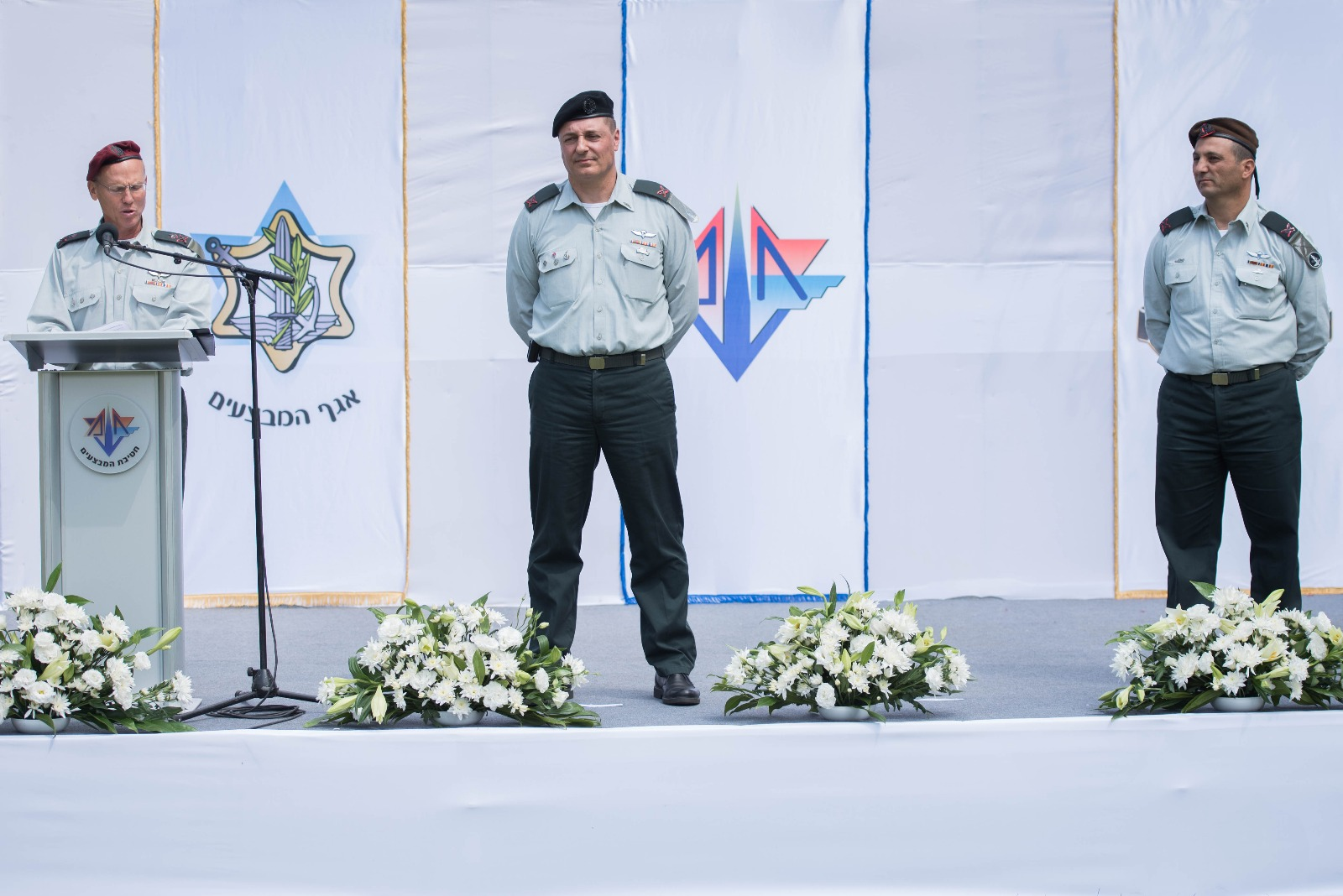 Tat Aluf (Brig. Gen.) Yaniv Asor, Head of operations brigade.